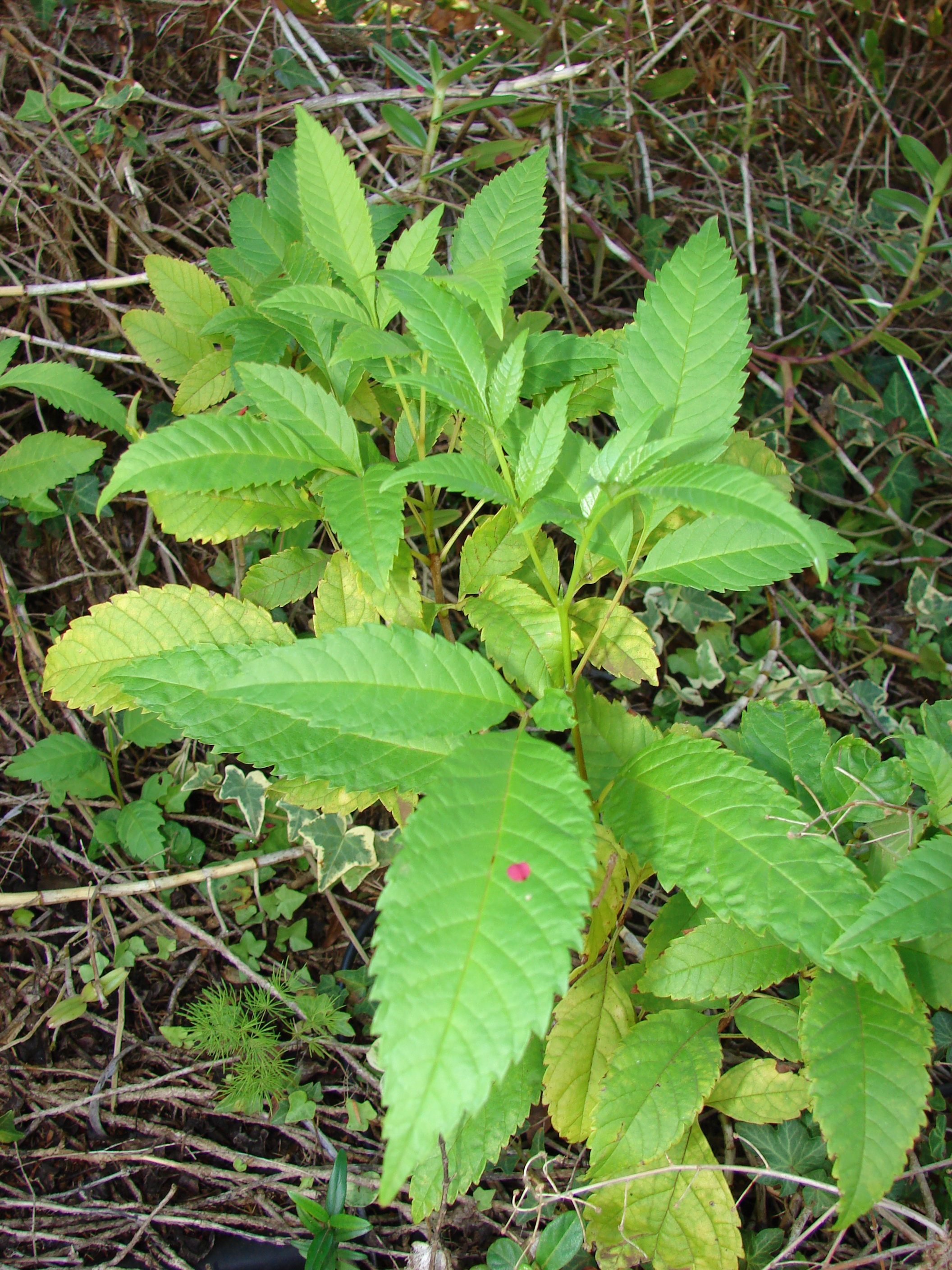 Tecoma stans (seedlings). Location: Maui, Enchanting Floral Gardens of Kula